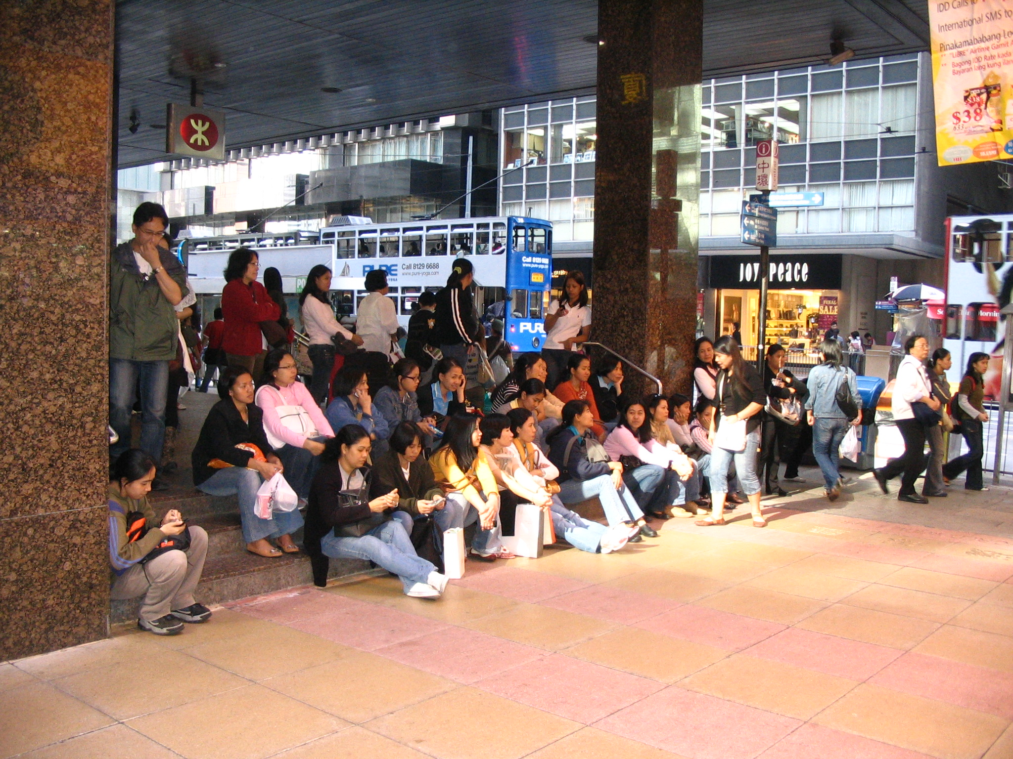 Photo of World Wide Lane